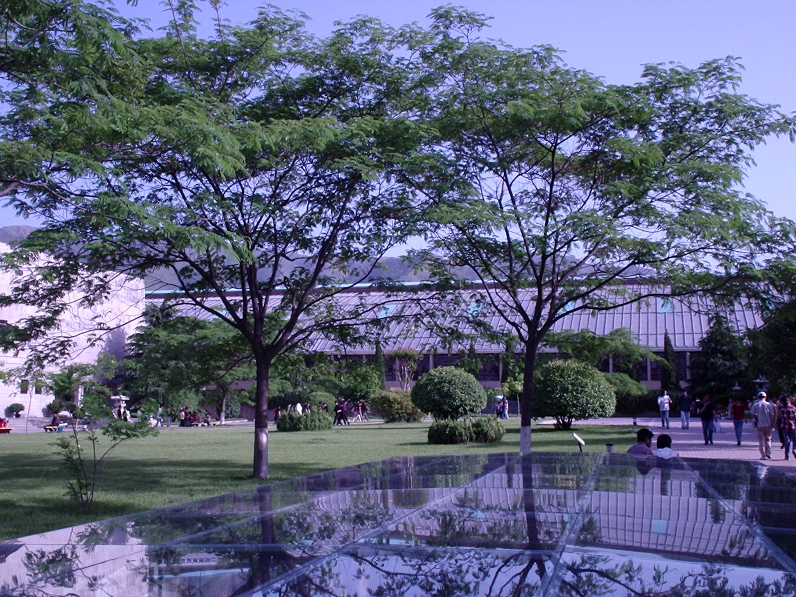 Trees reflect in the glass canopy of one of the burial chambers in the courtyard of the Terracotta Warriors Musem, Xi'an.